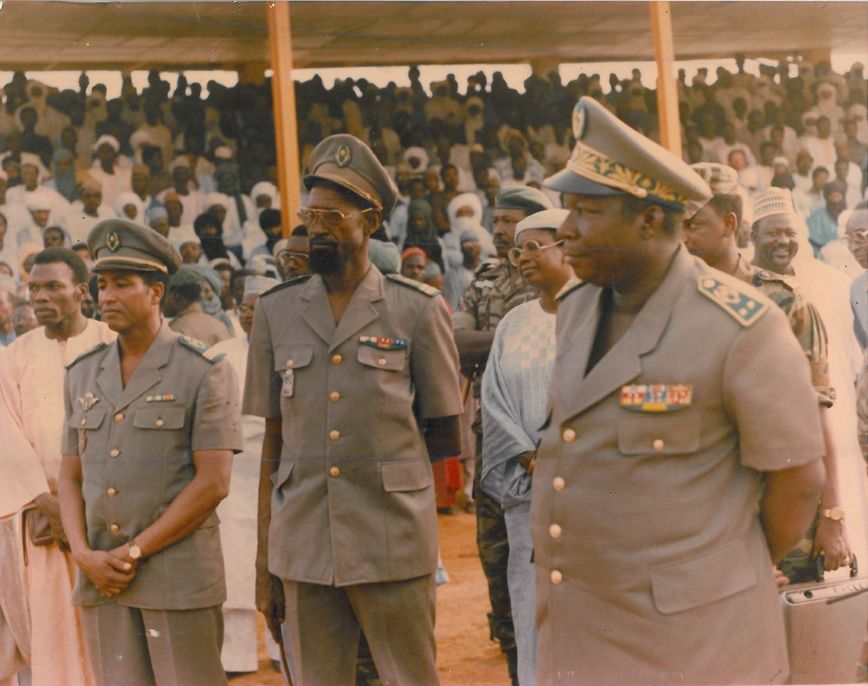 This picture shows Bagnou Beido in the middle with moustache. The officer on the right is Ali Saïbou. The other persons are currently unknown.